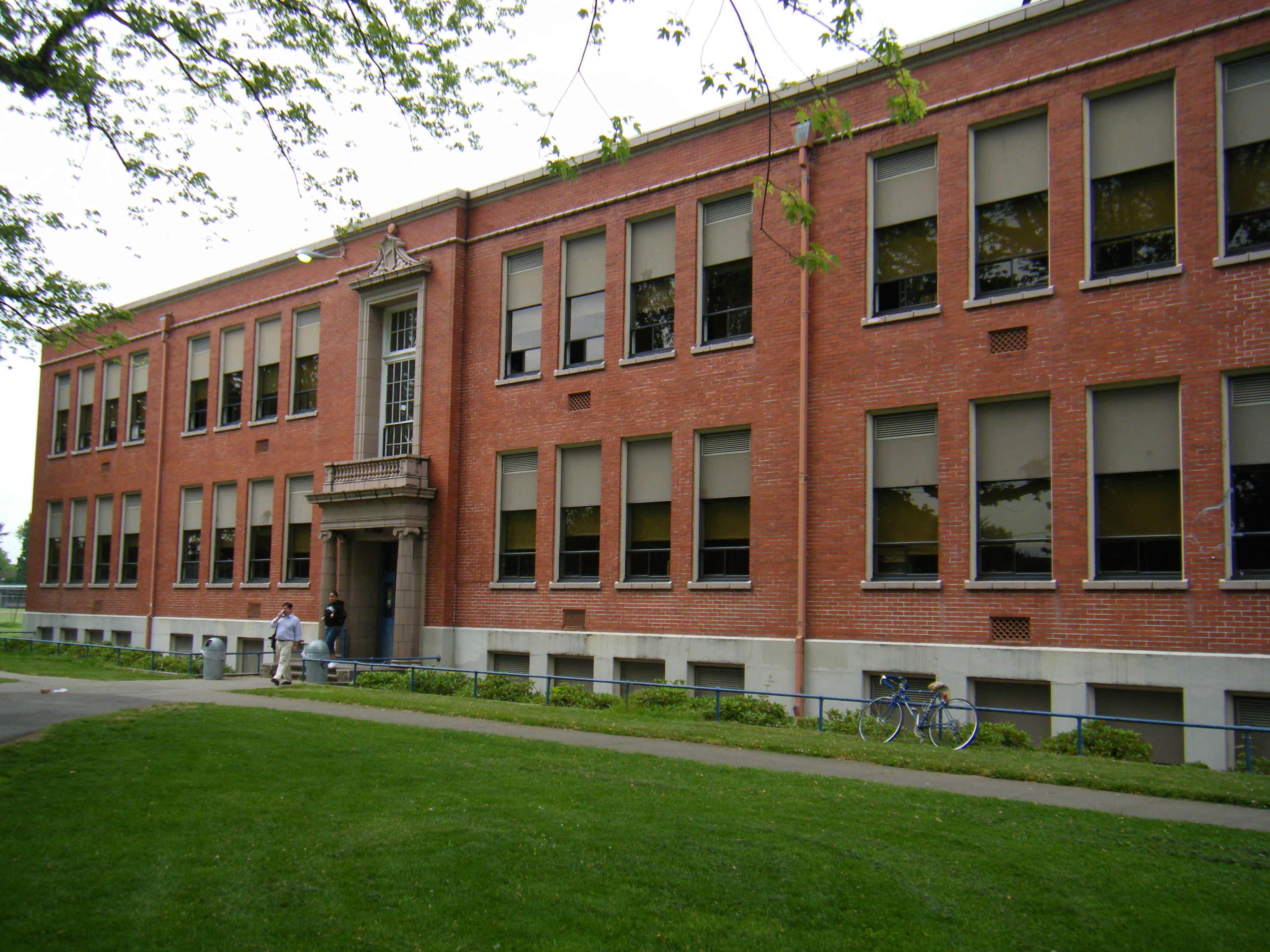 Grant High School, Portland Oregon